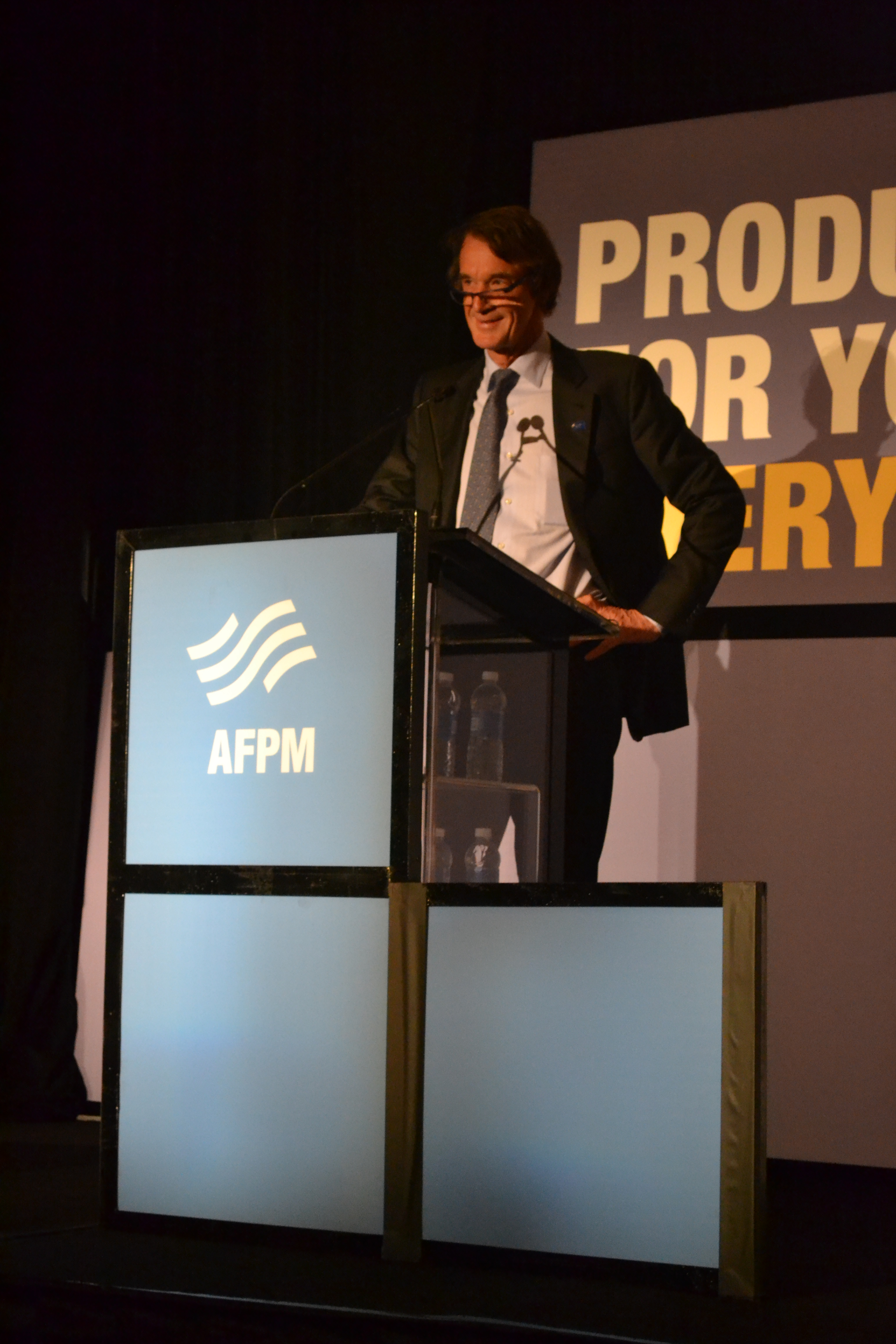 Photograph of Jim Ratcliffe, recipient of the 2013 Petrochemical Heritage Award, at the International Petrochemical Conference of the American Fuel and Petrochemical Manufacturers (AFPM: formerly NPRA), held March 24-26, 2013, at the Grand Hyatt San Antonio in San Antonio, Texas.